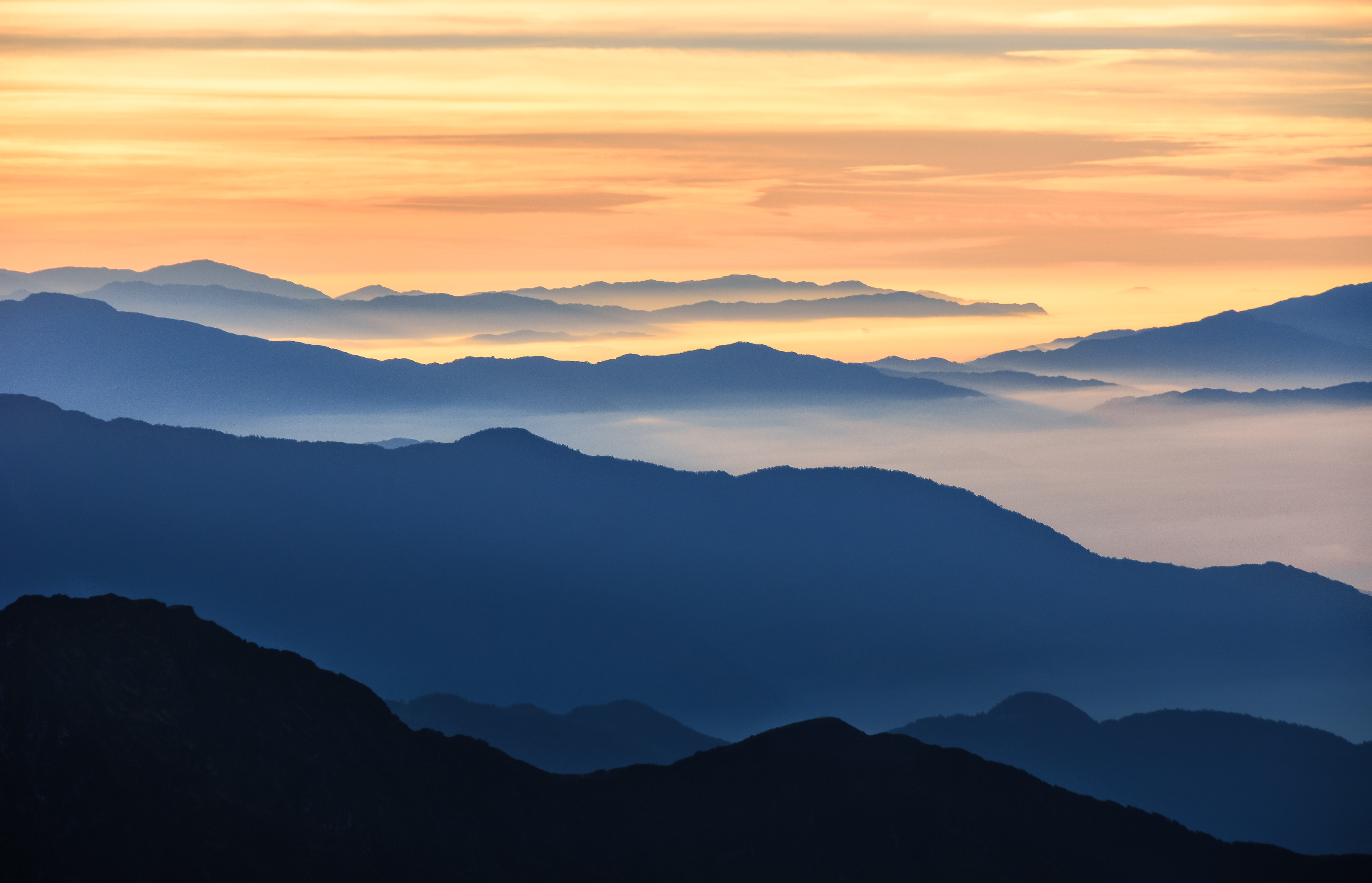 View from mountain pass Laurebina-la